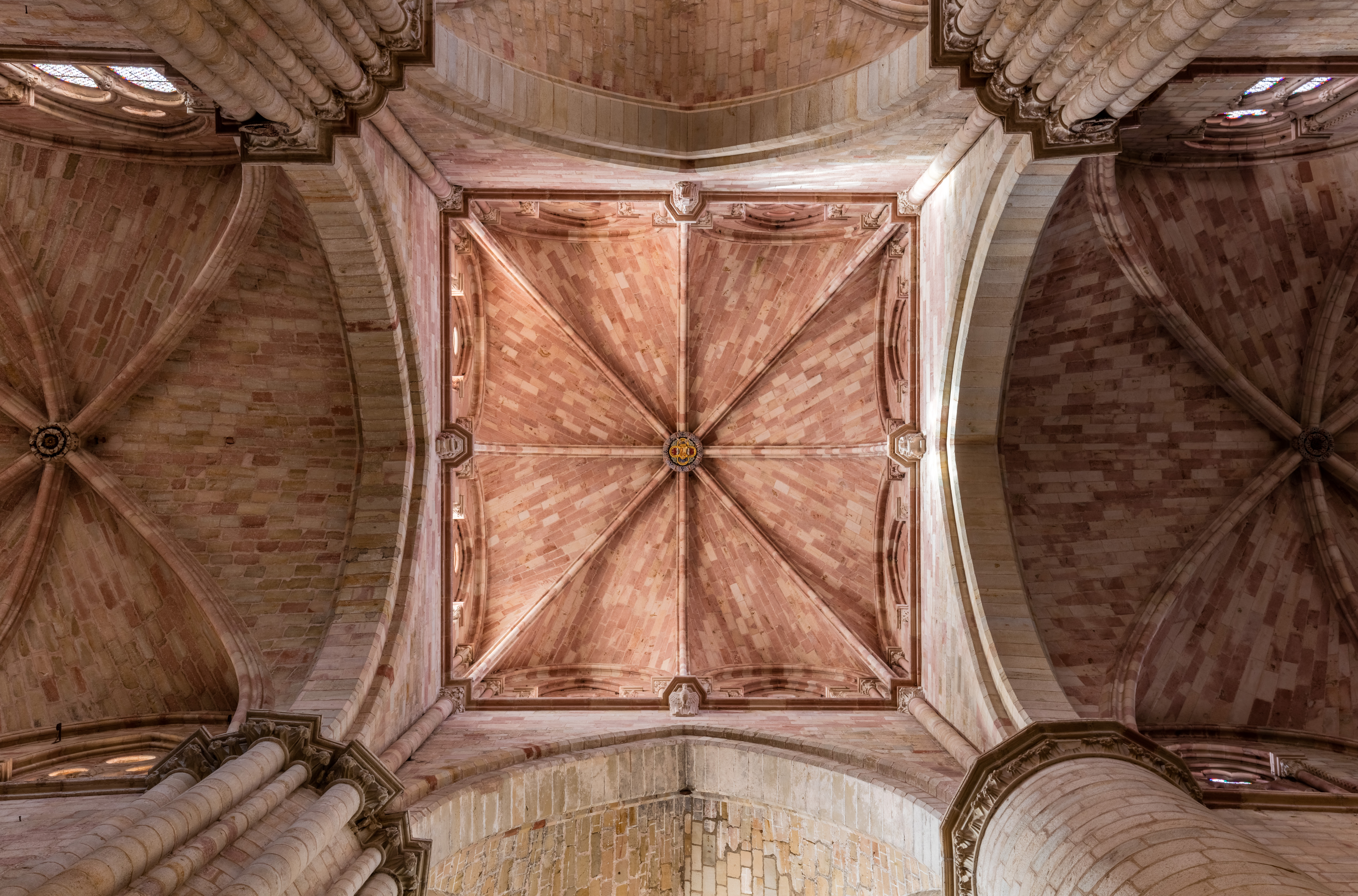 Cathedral of Santa María, Sigüenza, Spain